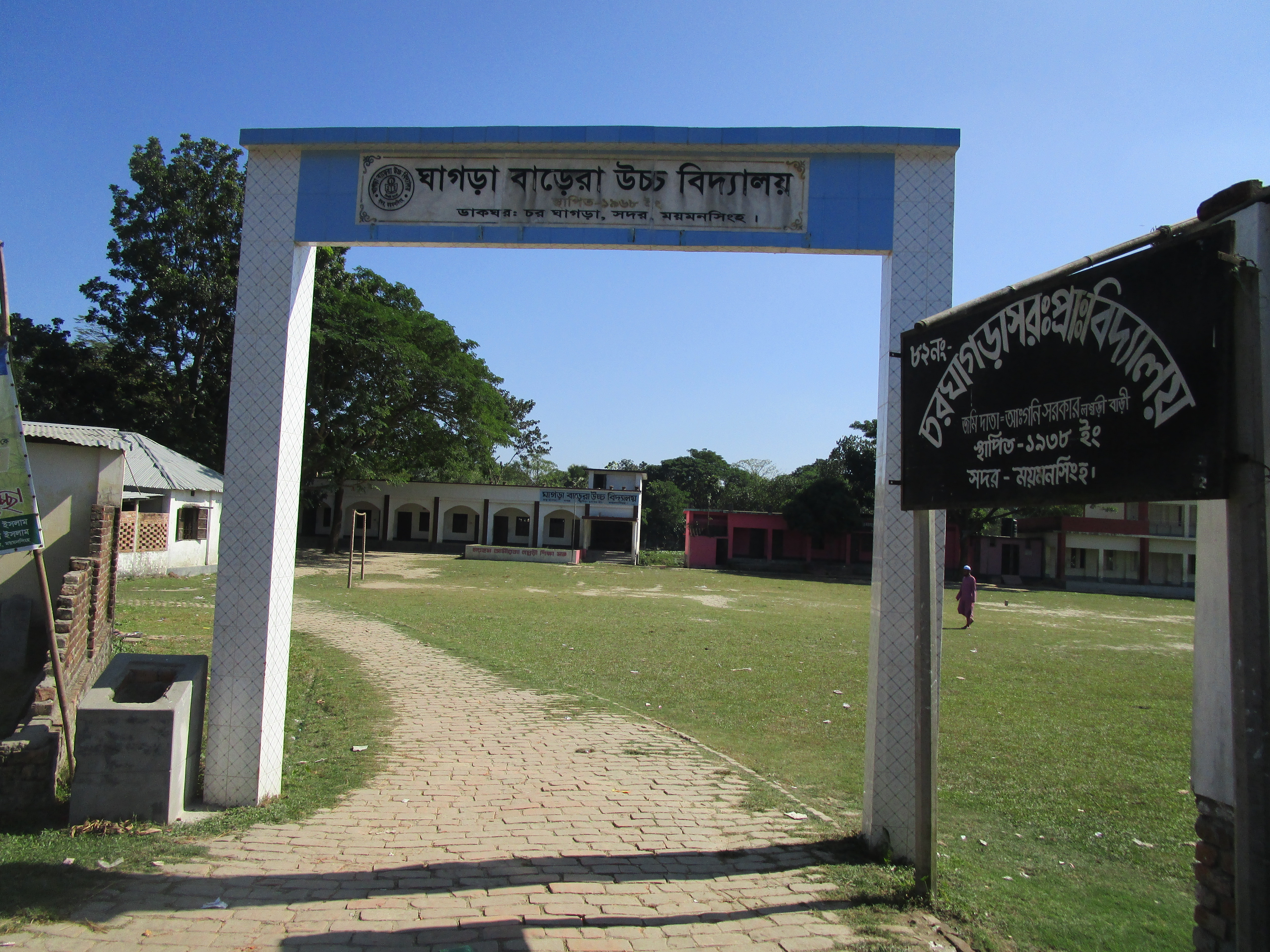 The Nameplate of Ghagra Barera High School.